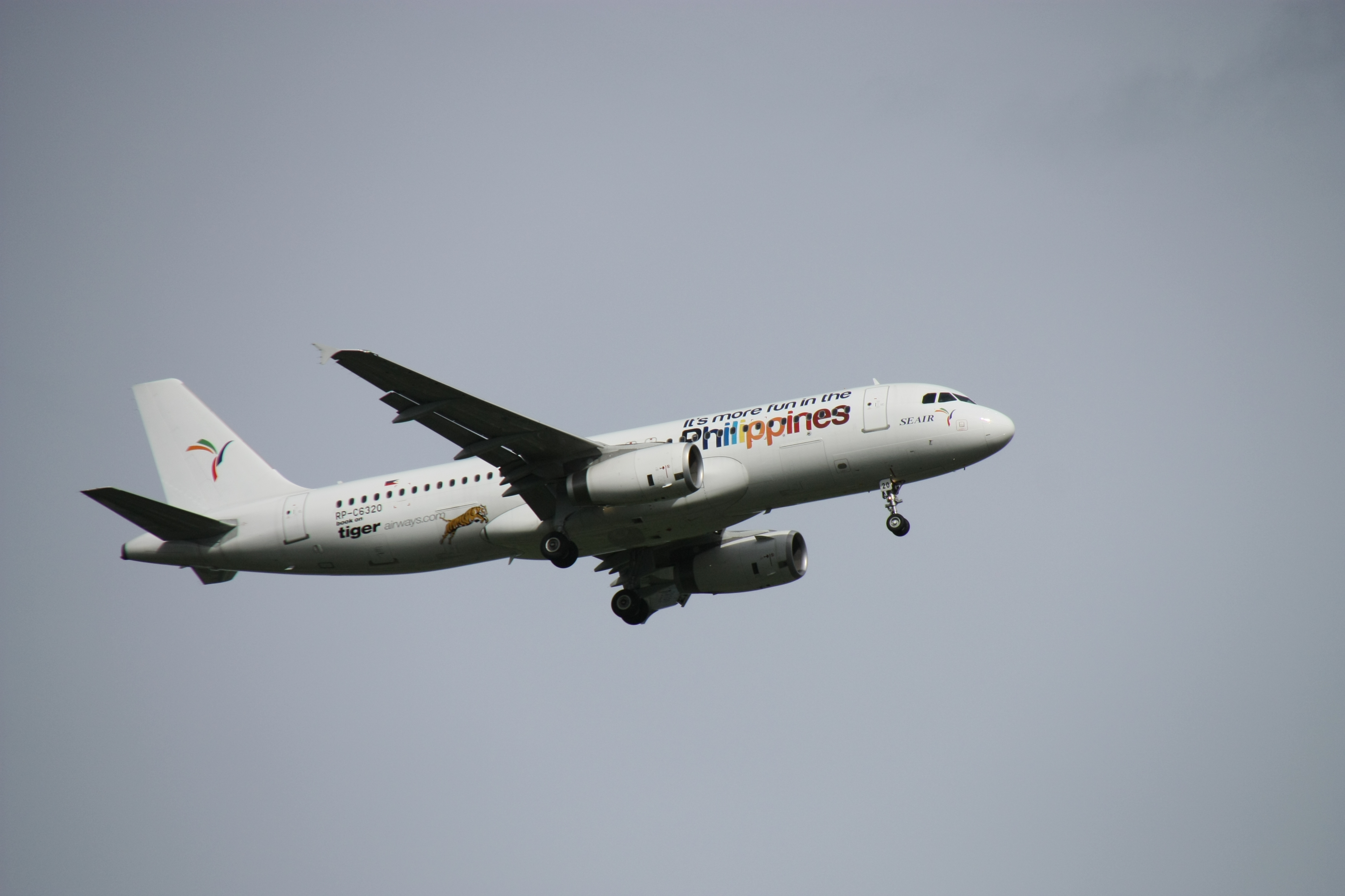 A SEAIR Airbus A320 on final approach to the Clark International Airport